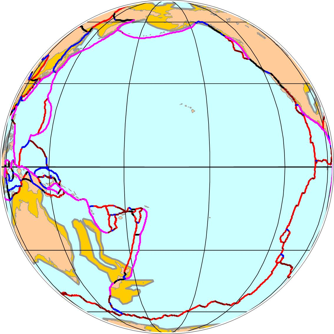 Pacific plate. Orthogonal projection (as seen from deep space).